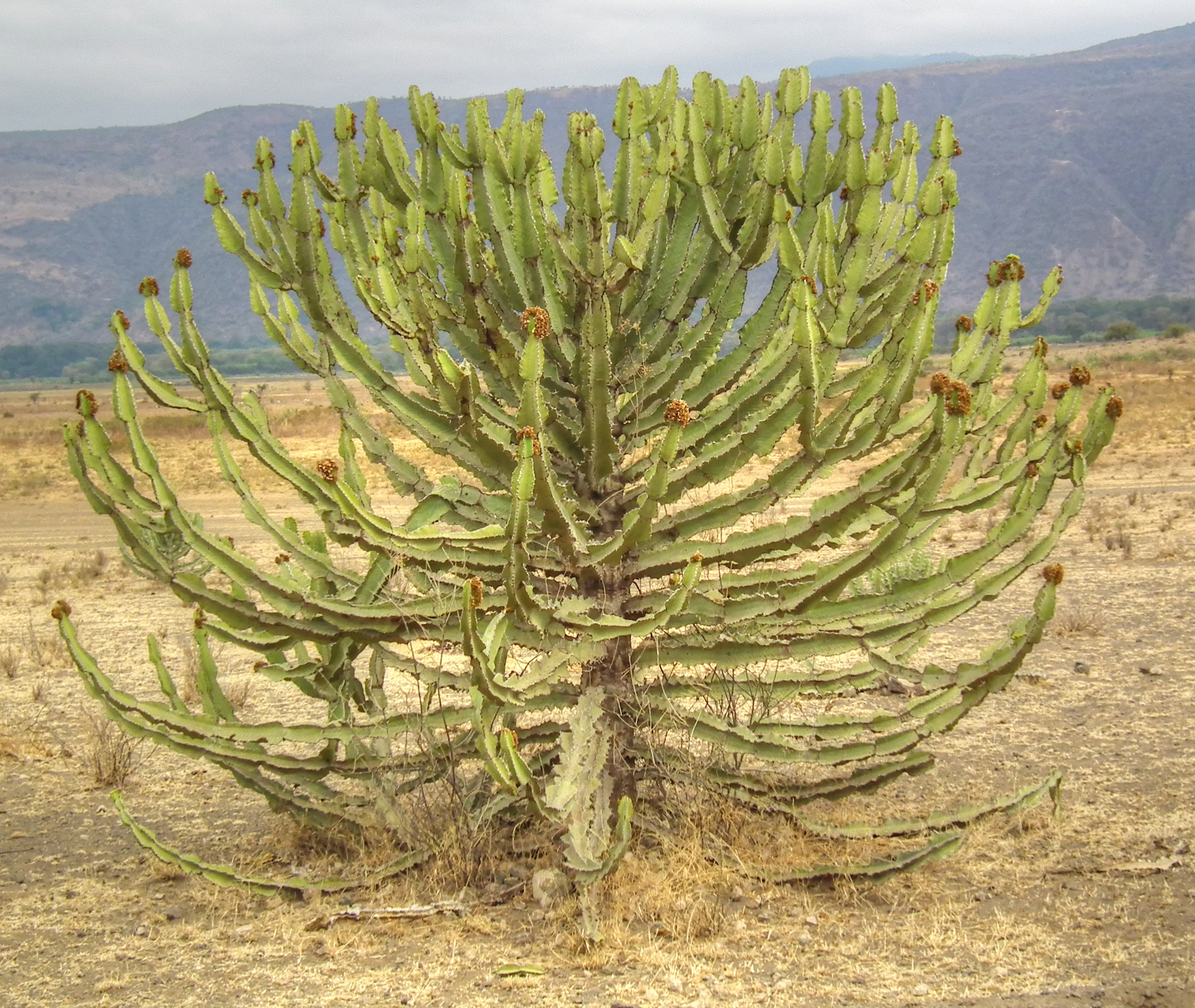 Candelabra tree (Euphorbia candelabrum), picture taken at, Northern Tanzania